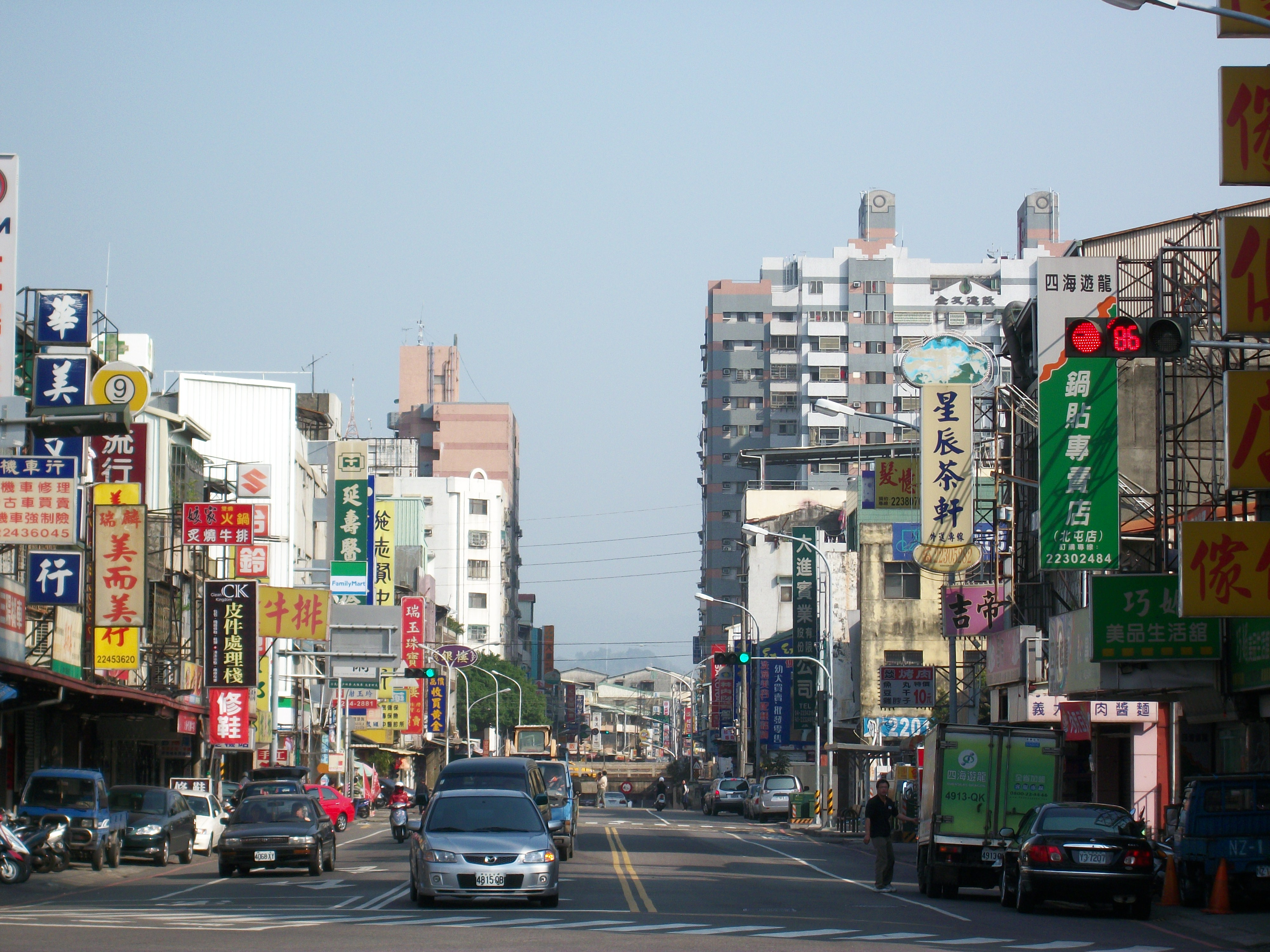 Section 1 of the Dongshan Rd. from the intersection of Wushin Rd. in Taichung City.中文（台灣）: 位於台中市東山路一段，文心路口拍攝。